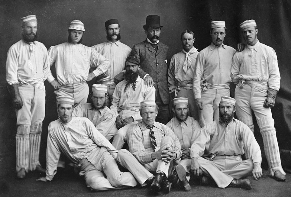 Title is wrong - it's really the 1878 Australian squad. Back, from left: Jack Blackham, Tom Horan, George Bailey, Dave Gregory, John Conway (manager), Alec Bannerman, Charles Bannerman, Billy Murdoch. Front, from left: Fred Spofforth, Francis Allan, William Midwinter, Tom Garrett, Henry Boyle.